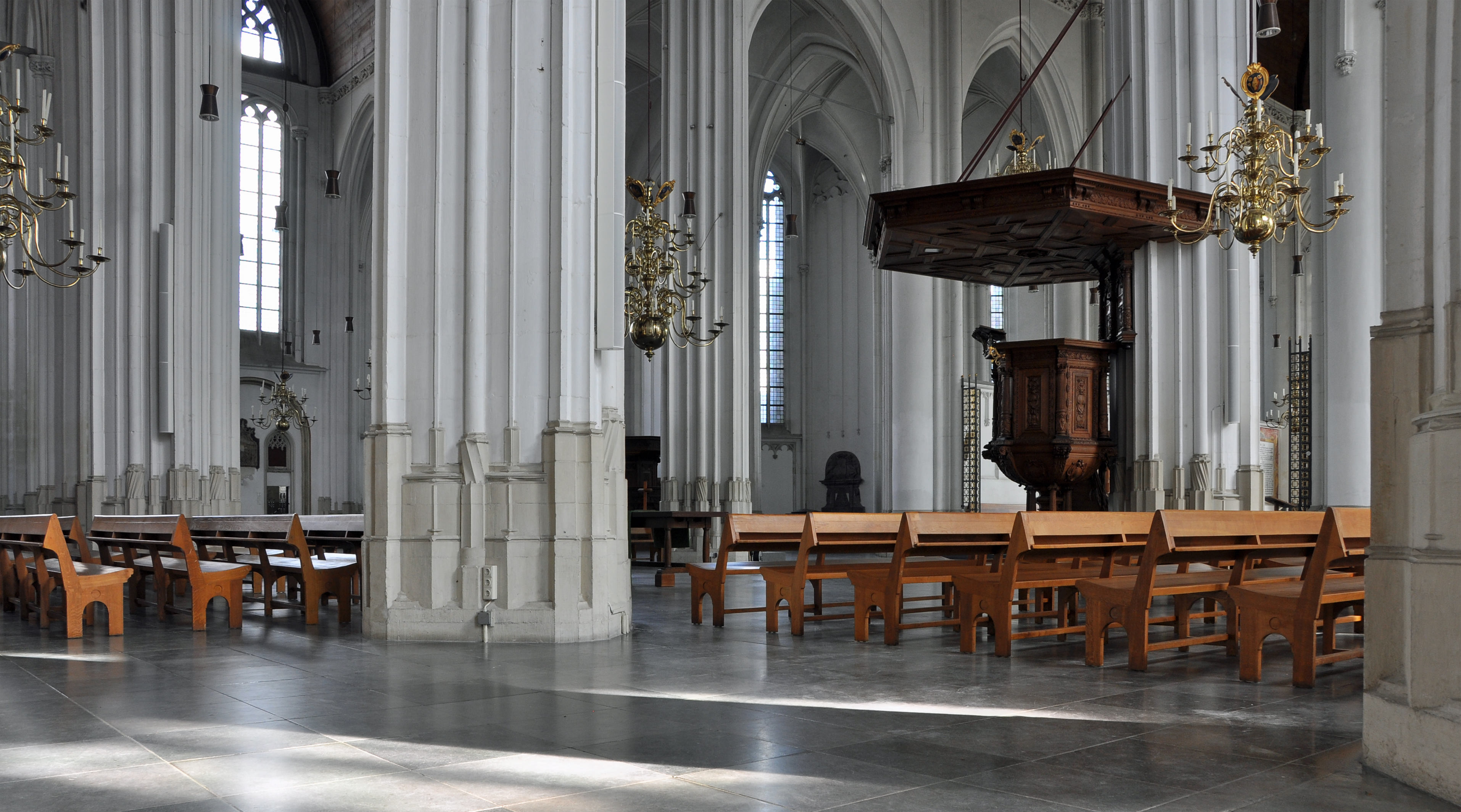 Nijmegen (the Netherlands): Sint-Stevenskerk (St Stephen's church) - interior